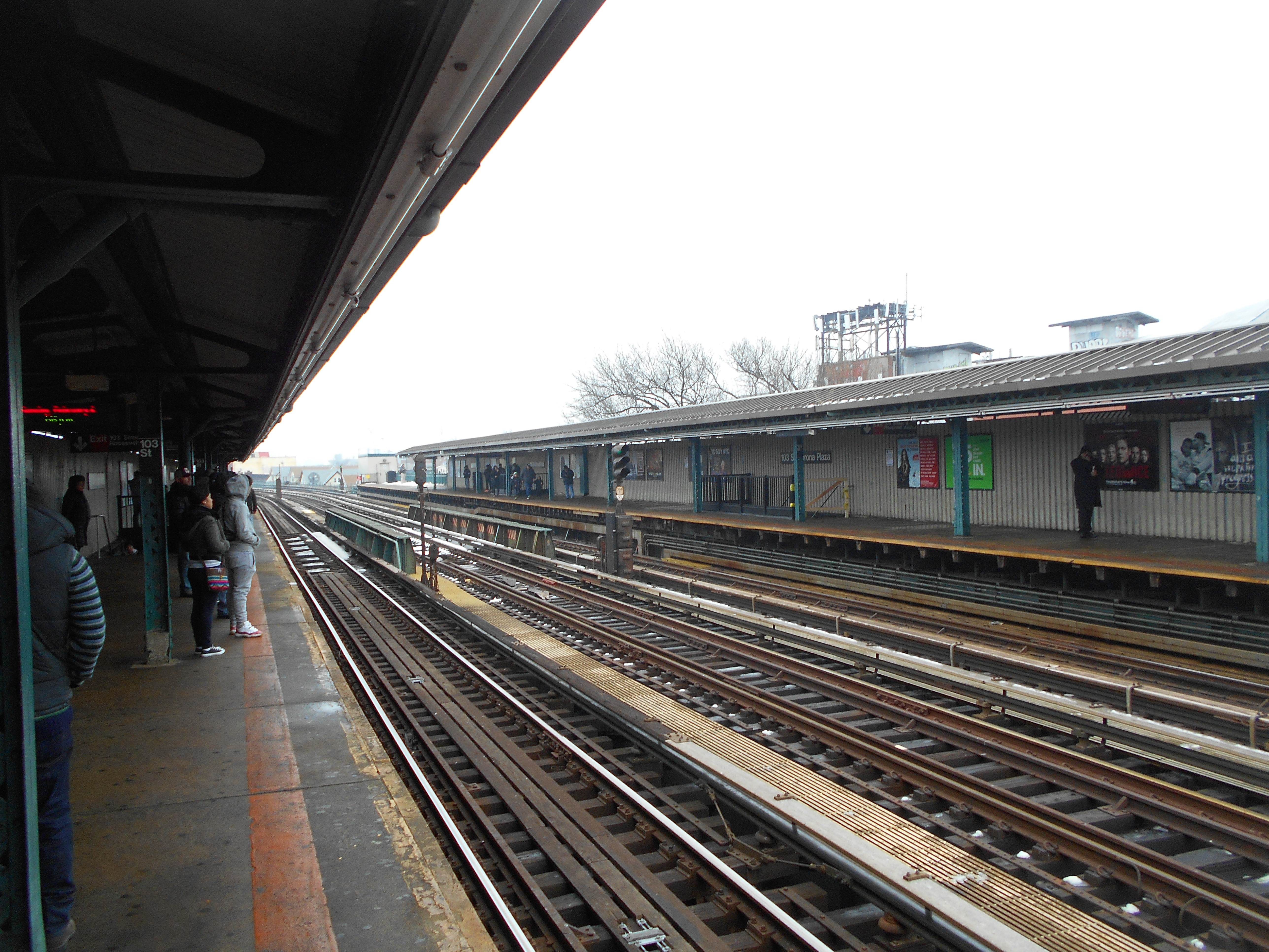 Corona, Queens, New York